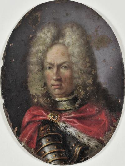 Portrait of Count Johann Matthias von der Schulenburg